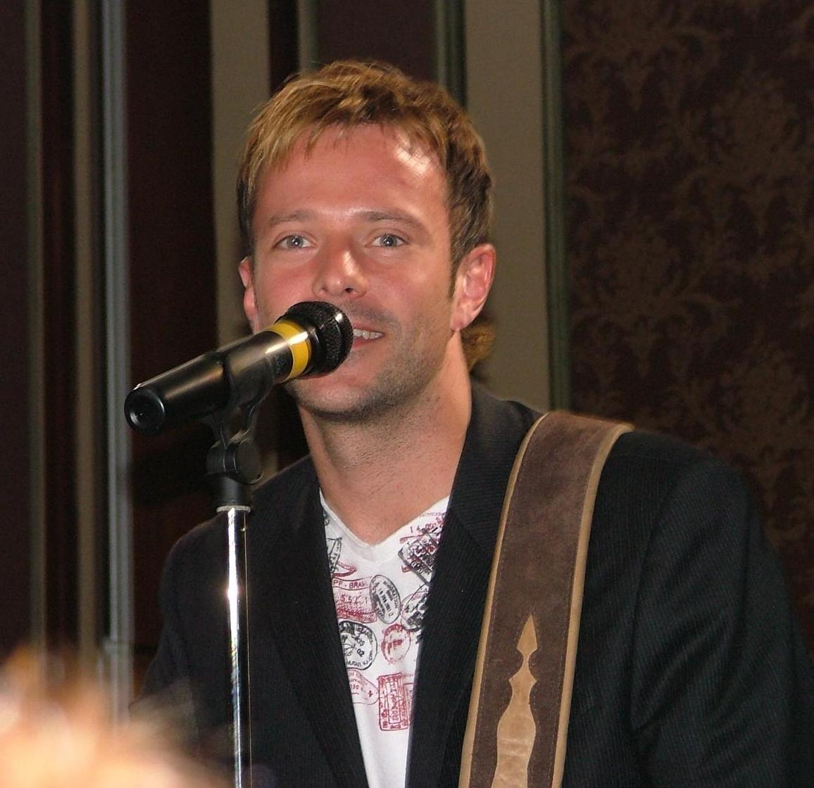 James Fox